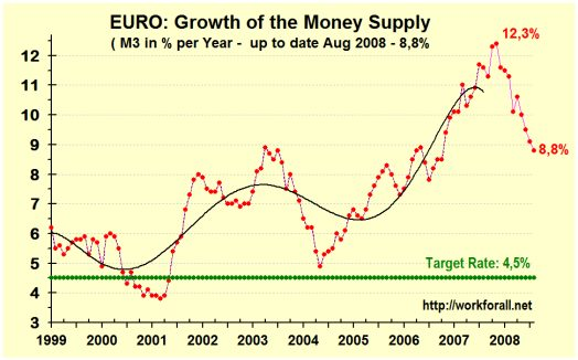 growth rate of the money supply m3 in the Euro area